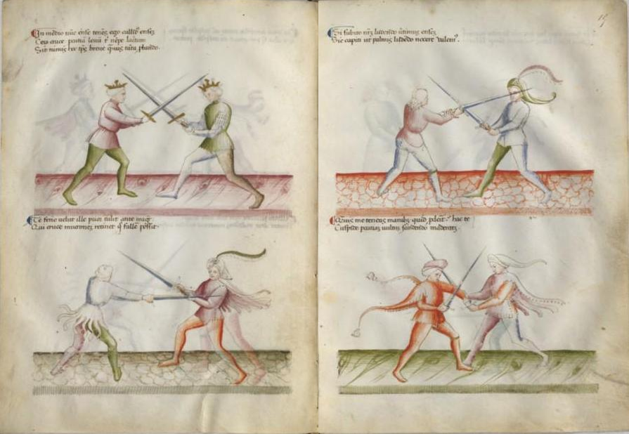 Bibliothèque nationale de France Mss. Latin 11269, ff 14v-15r (Paris, early XV century).